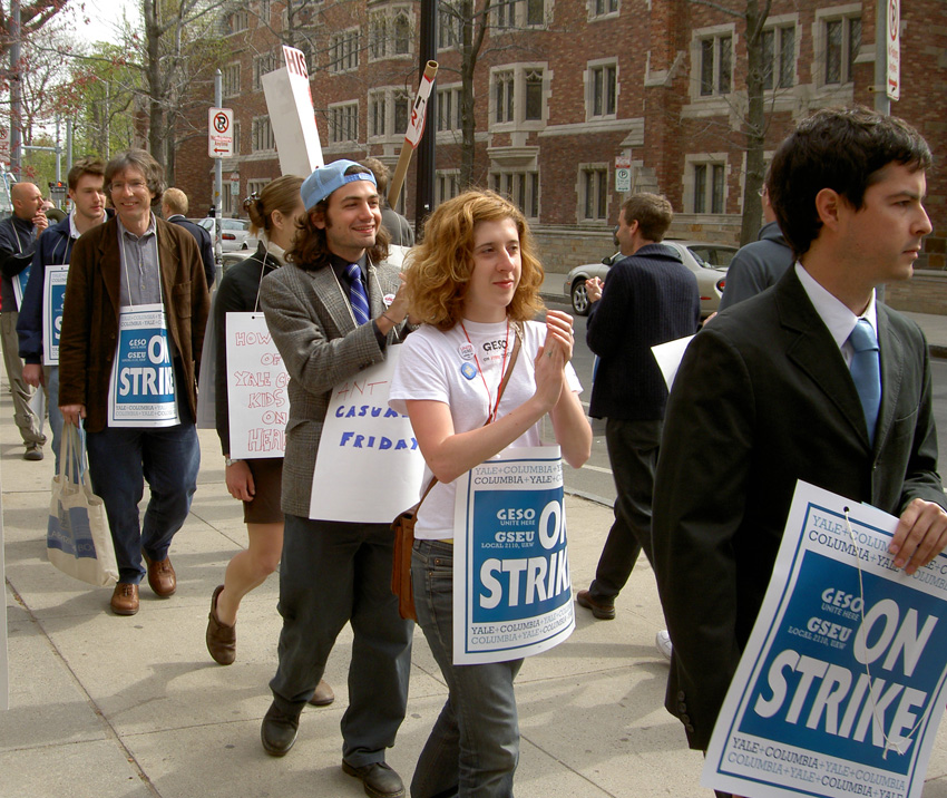 GESO protest at Yale University for recognition of as a union.